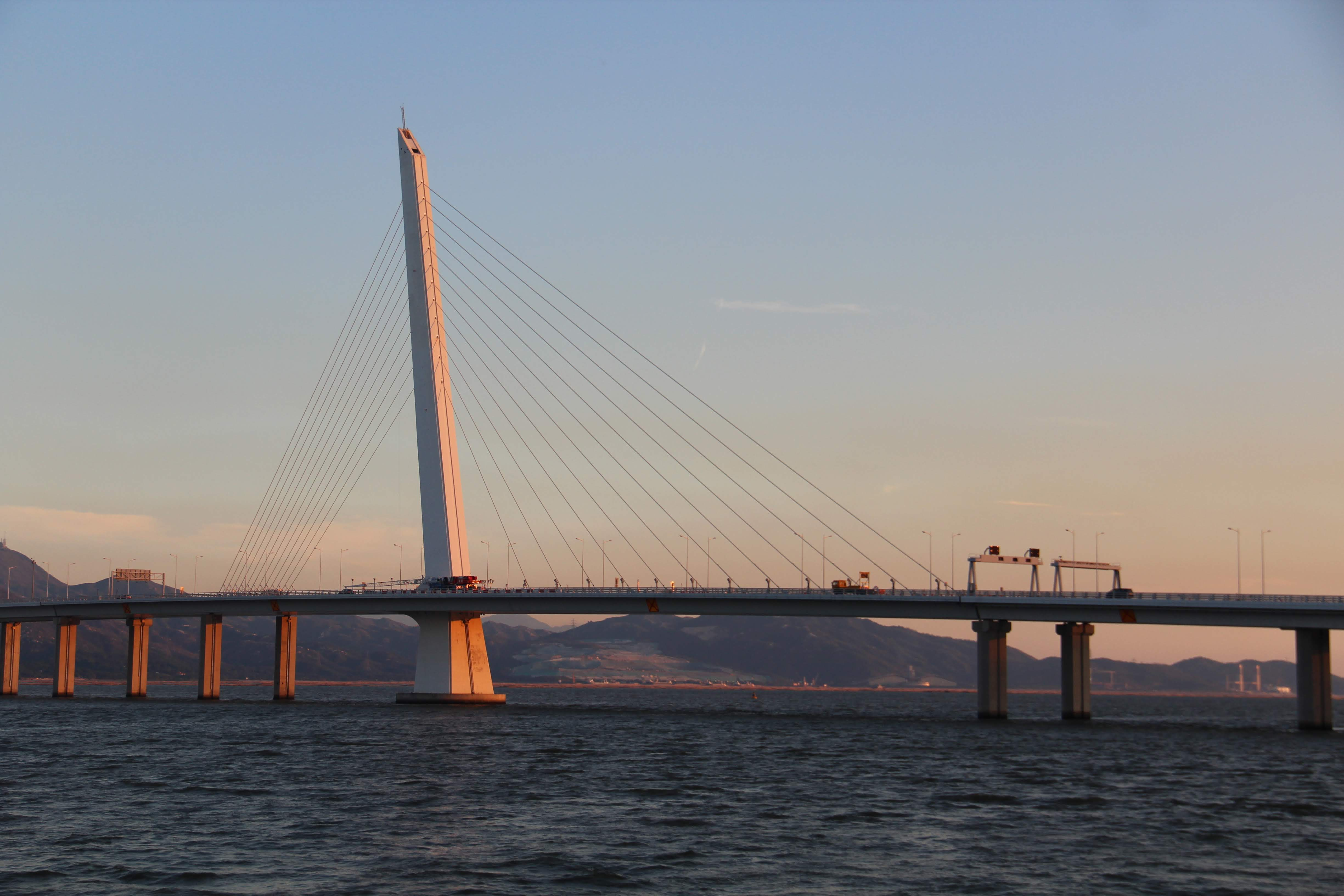 Sunset in Senzhen Bay (Deep Bay) Bridge. This is the tower that near Shenzhen.